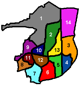 Diagram of Crawley's 13 residential neighbourhoods, showing the colours used by the council on road name signs to distinguish between them. Created by Hassocks5489 based on an original diagram by Radamfi. Created 22 September 2007.